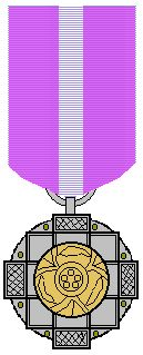 Padma Bhushan is a civil decaoration of India